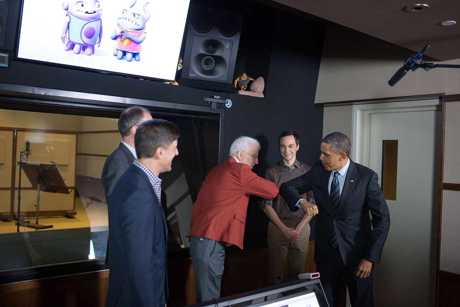 United States president Barack Obama visited DreamWorks Animation in Glendale, California, where he met Steve Martin and Jim Parsons who were recording lines for the 2014 animated film "Home".